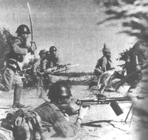 Imperial Japan Army soldiers invaded Henan.